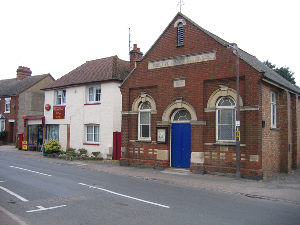 Meppershall High Street, Beds. – with Post Office and village shop, and Primitive Methodist Church founded 1915.